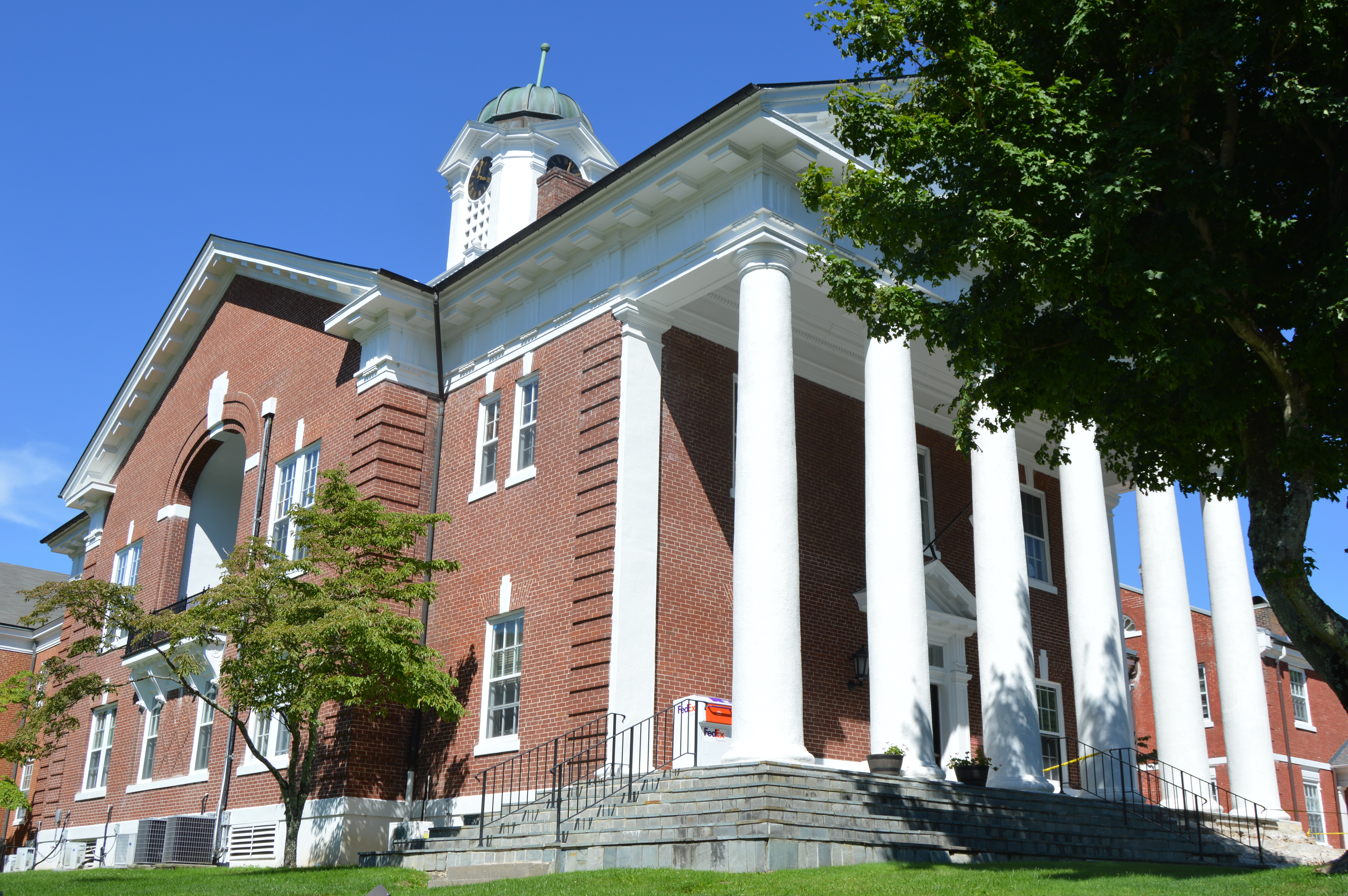 Front and western side of the Bath County Courthouse, located on Courthouse Hill Road in central Warm Springs, Virginia, United States. It was built in 1907.